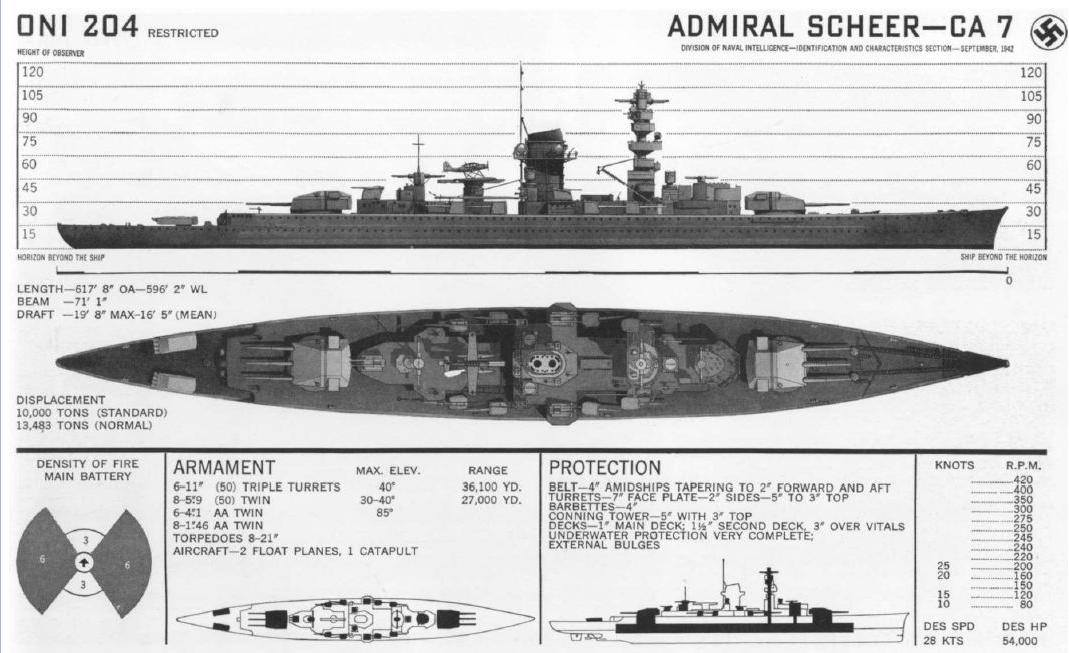 Wartime recognition drawing of an Admiral Scheer class cruiser, produced by the Office of Naval Intelligence in 1942.